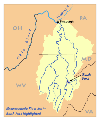 This is a map of the Monongahela River basin, with the Black Fork in West Virginia highlighted. Credits I, Pfly, made it, based on USGS data.